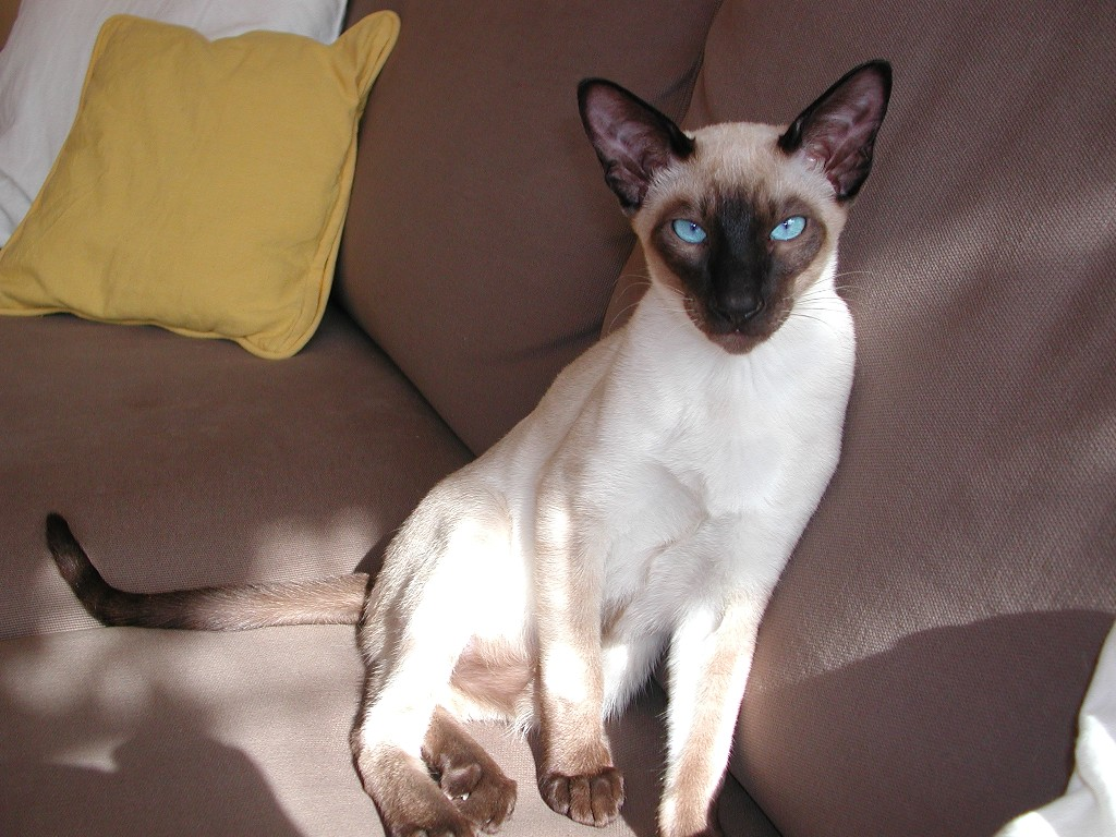 Self-made photo of Coco, sealpoint Siamese cat.